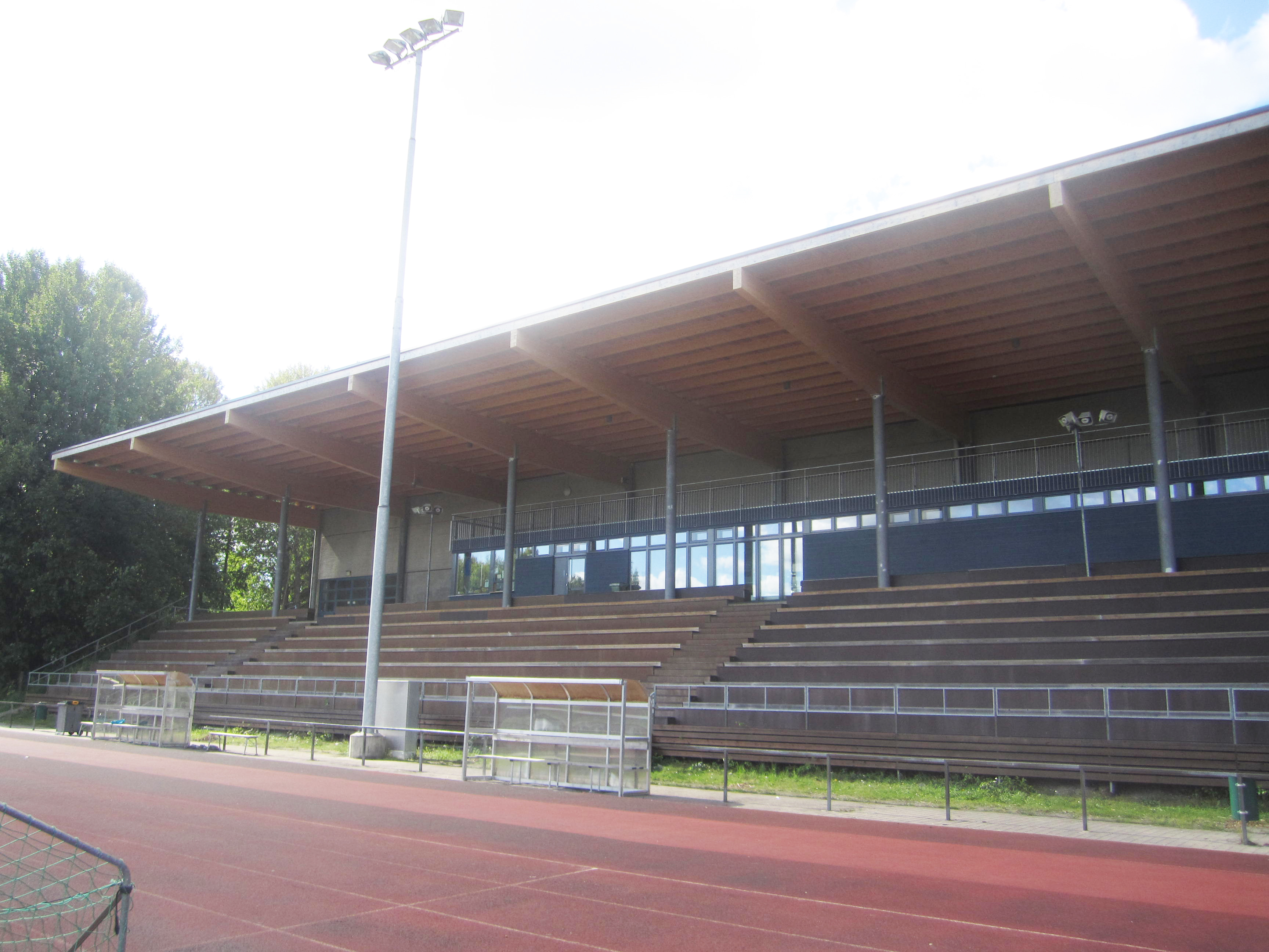 Fair Pay Areena in Helsinki, Finland.